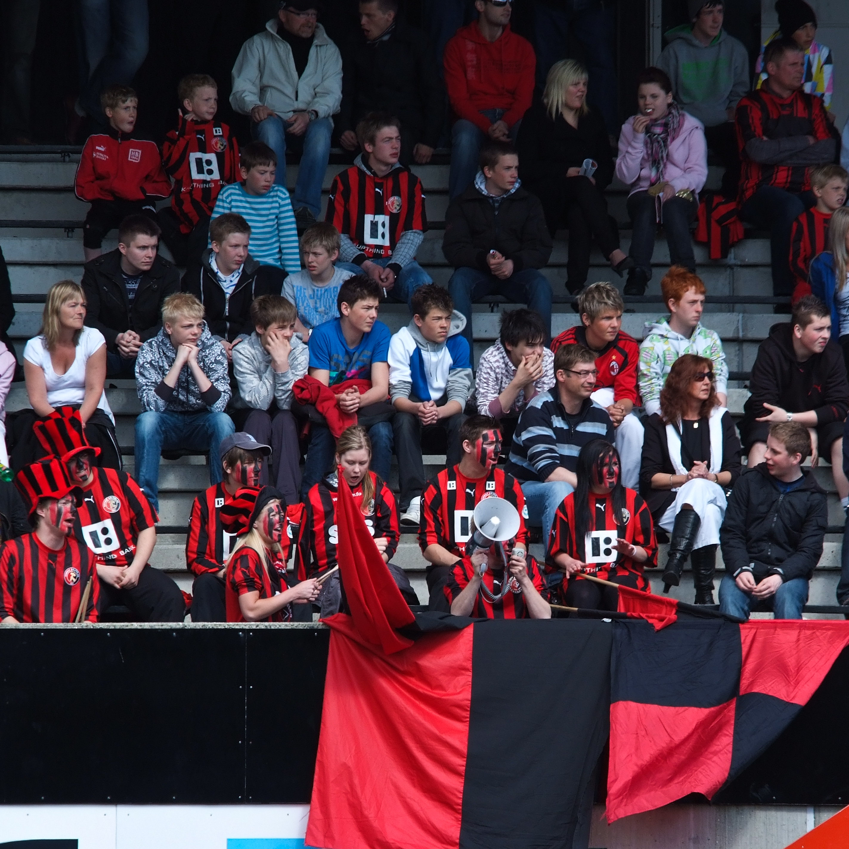 HB-fjepparar (HB supporters on a HB-NSÍ match)